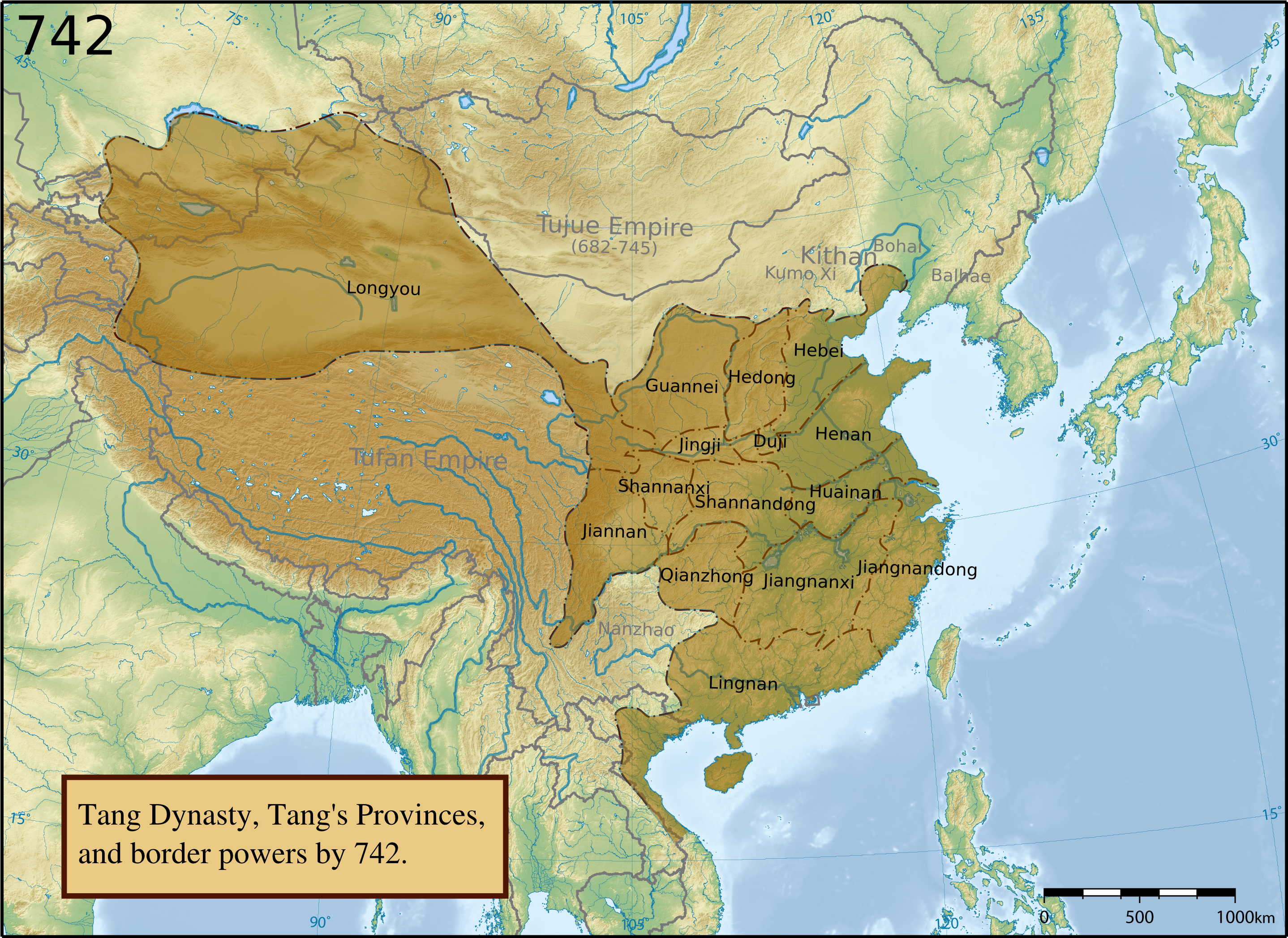 Tang dynasty.